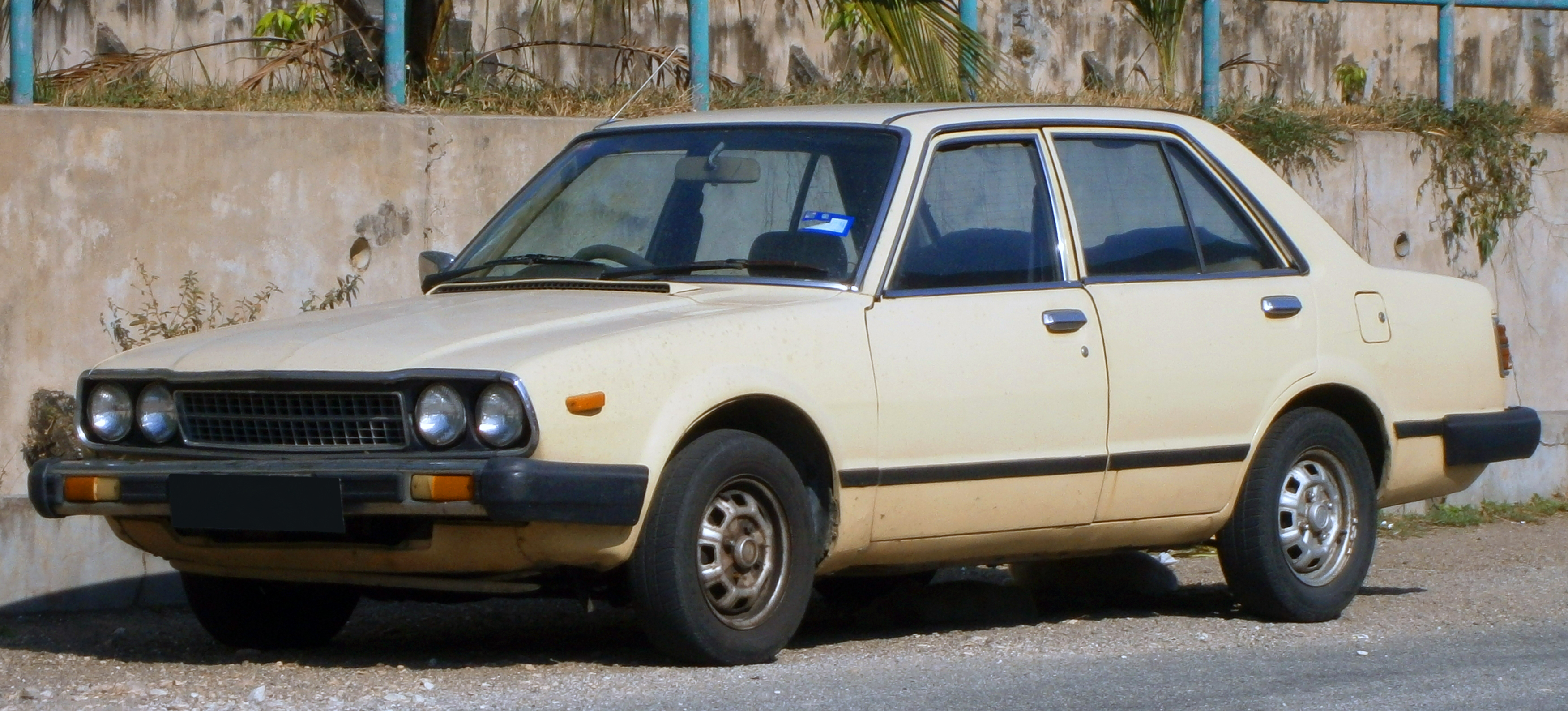 1981 Honda Accord saloon in Ipoh, Malaysia.Designed & Assembled in Japan